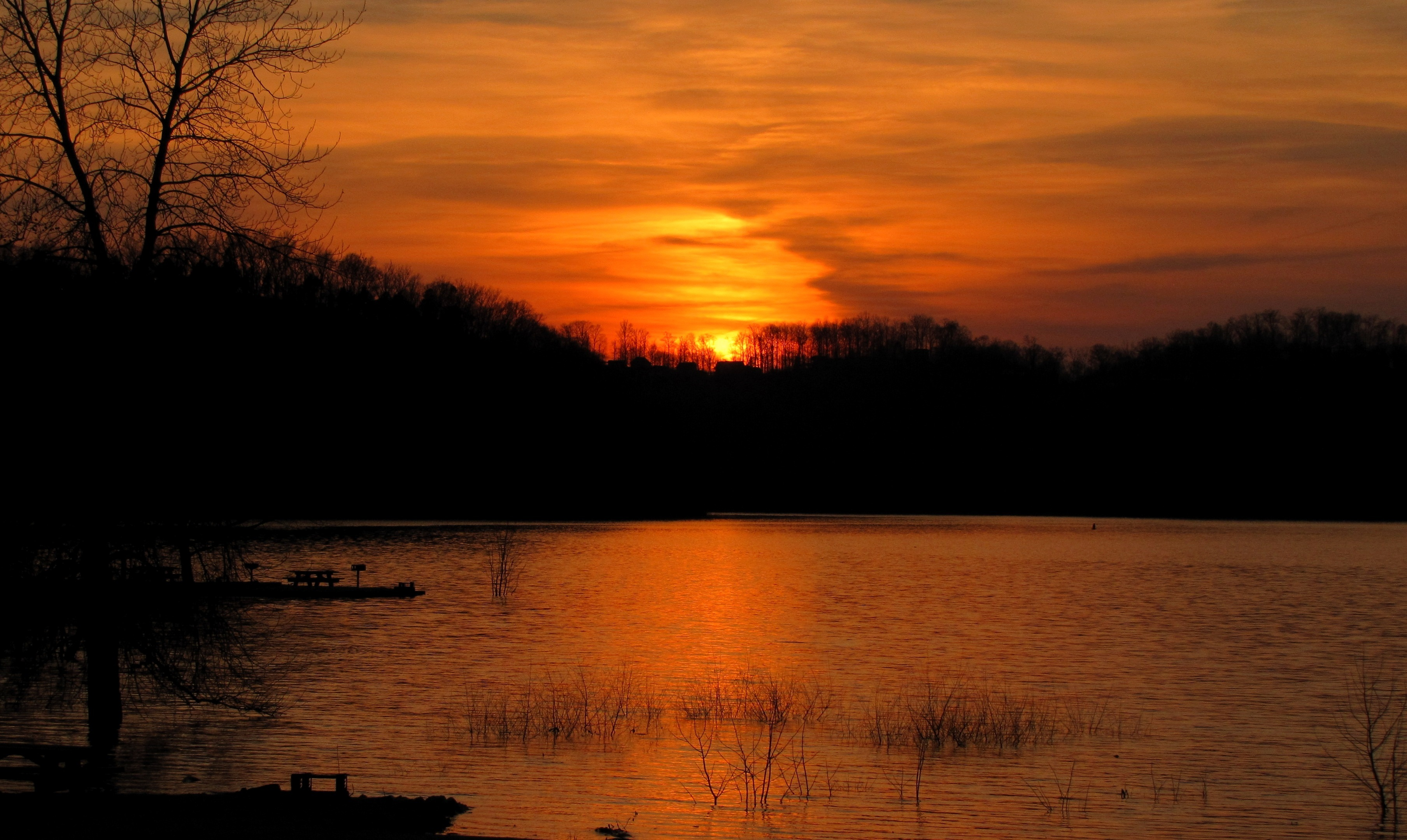 Sunset over Dale Hollow Lake (Obey River) from the Obey River Campground, near Byrdstown, Tennessee, USA. The items silhoutted on the left are picnic tables.